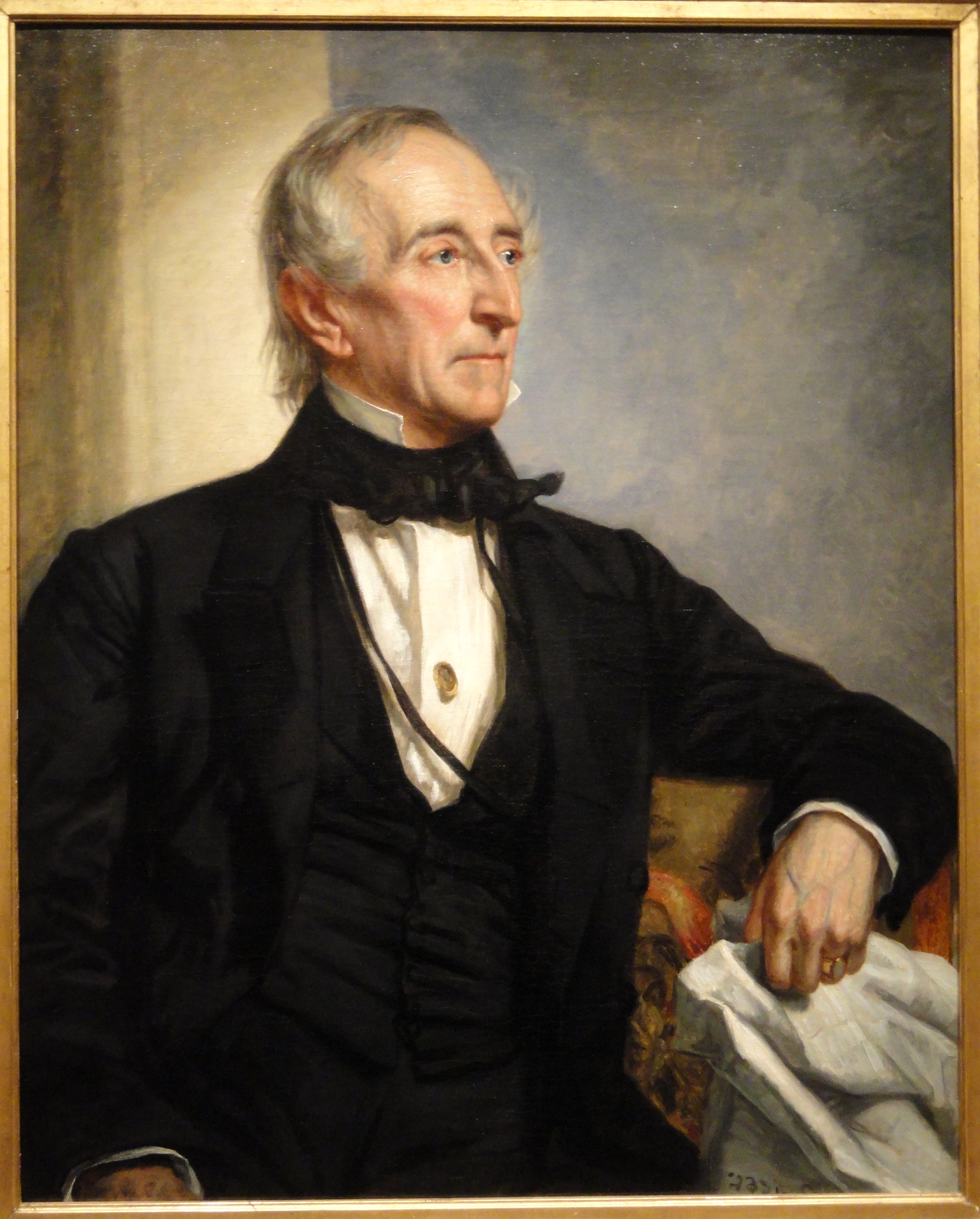 John Tyler by George Peter Alexander Healy, 1859. Exhibited in the National Portrait Gallery, Washington, DC, USA. This painting is old enough so that it is in the public domain. Photography was permitted in the museum.